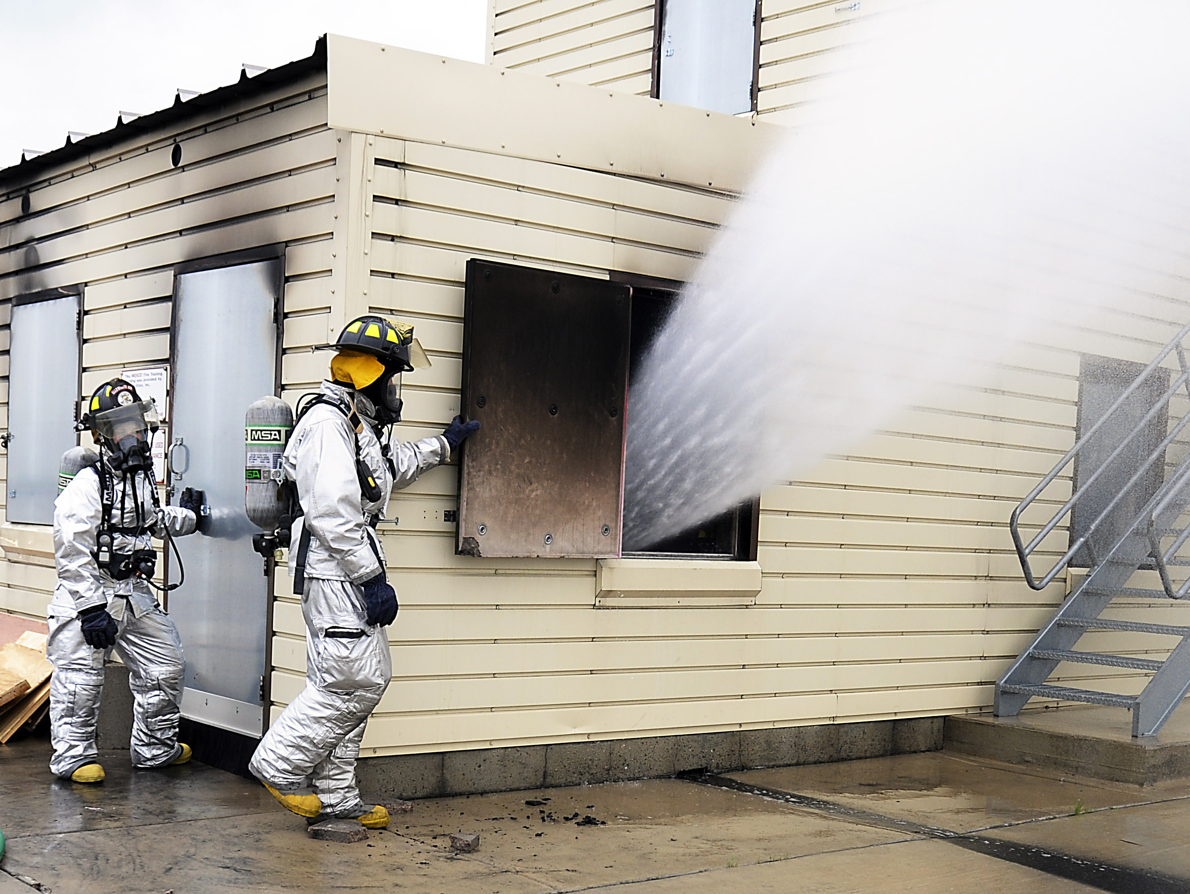 Senior Airman Alexander Gerszewski from North Branch, Minn., and Senior Airman Kenny Colton from Rochester, Minn., both members of the 28th Civil Engineering Squadron at Ellsworth Air Force Base, monitor the 662nd Firefighting Team's attempt at creating hydraulic ventilation during a controlled structure burn. Hydraulic ventilation is created by shooting the water out an open window which pulls the heat and smoke out of the room.